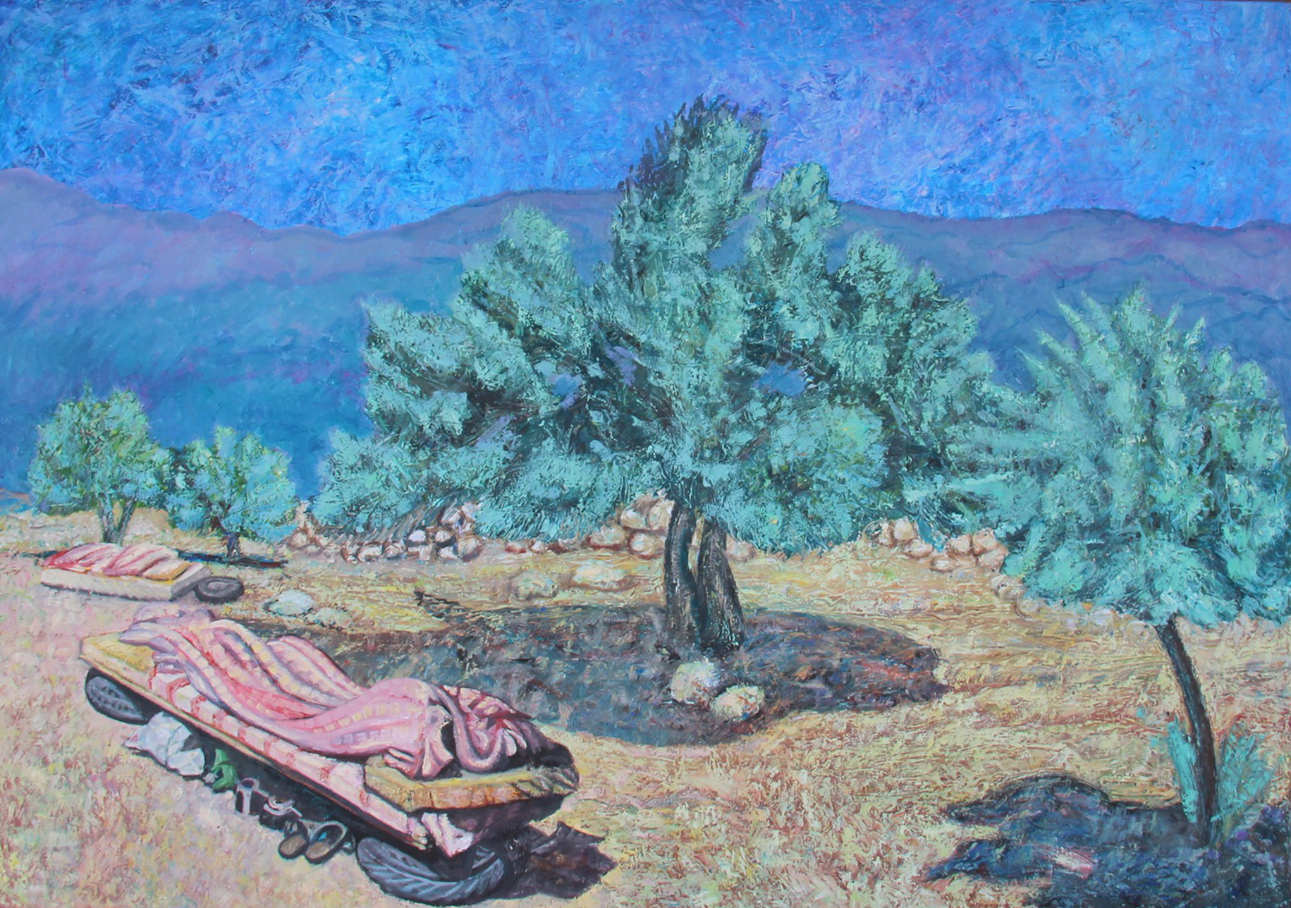 Ahmad Canaan: Illegal Habitants 6, Oil on Canvas 2014